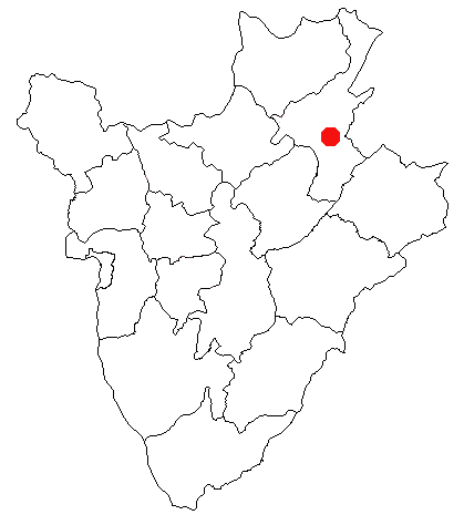 Muyinga, Burundi Location Map; created with the GIMP. Made by User:Acntx.